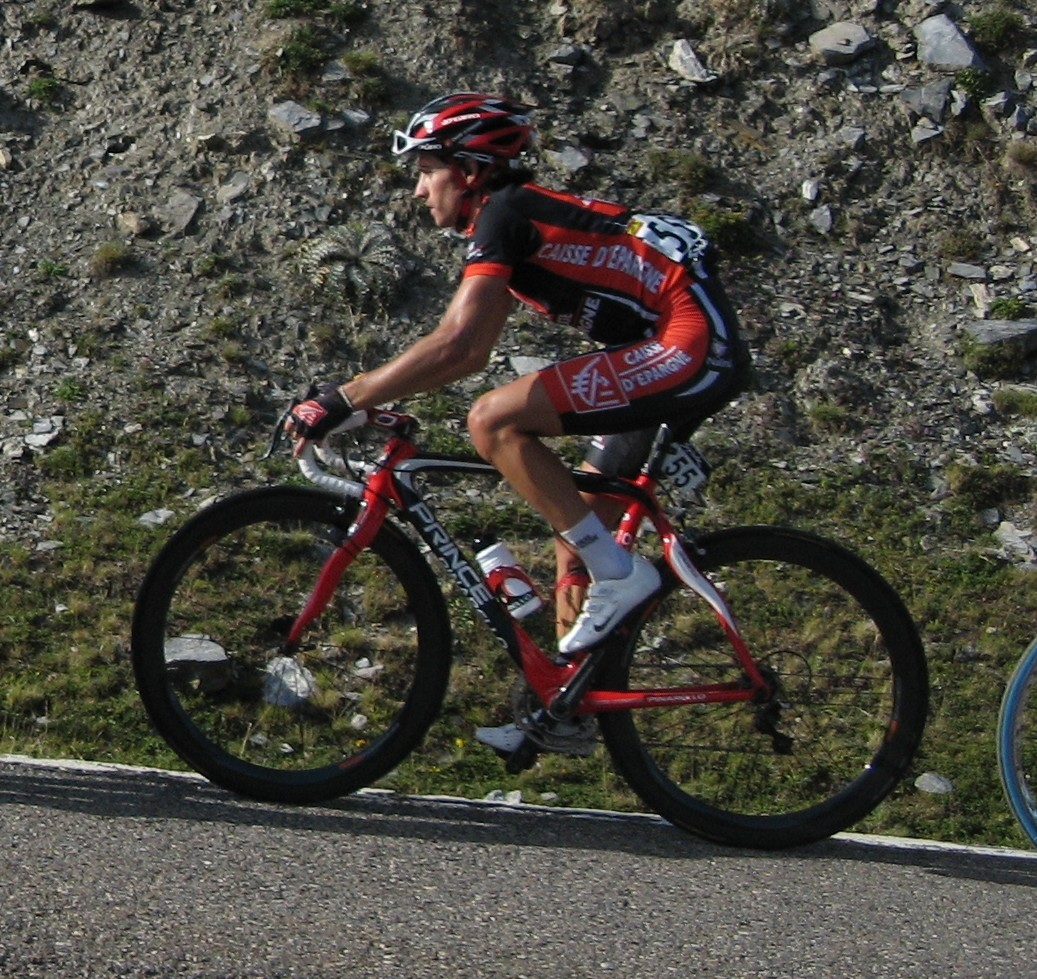 Daniel Moreno, 2008 Vuelta a España, 8th stage, Port de la Bonaigua, Spain.